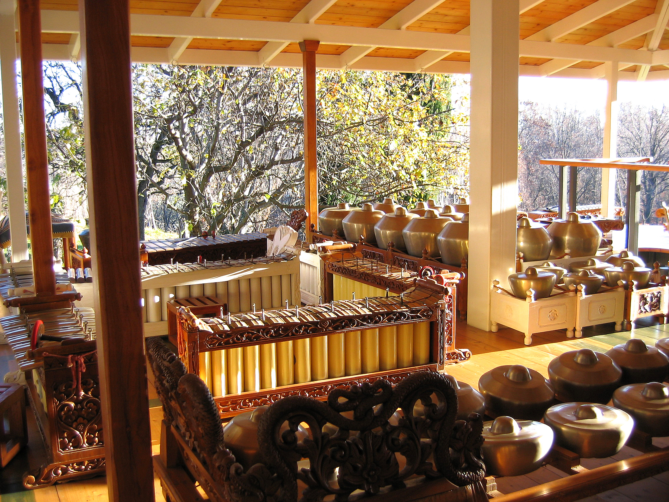 Instruments_(2)_of_Montebello_Gamelan.jpg own work 2005 Giovanni Sciarrino